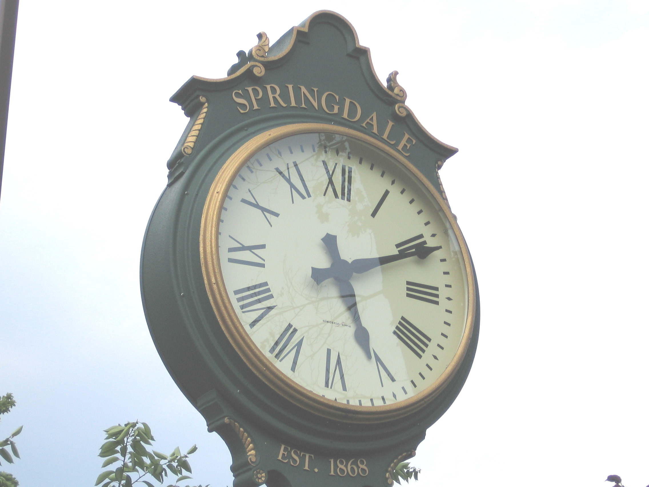 Pedestal clock at the Springdale Metro–North station in the Springdale section of Stamford. Picture taken late in the afternoon on July 15, 2007. Picture brightened.